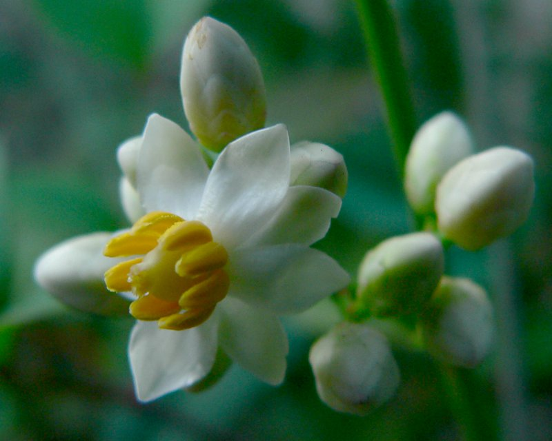 Scientific Name: Nandina domestica Thunb. Common Name: Heavenly Bamboo Certainty: positive (notes) Location: California; Los Angeles; Urban Pasadena Date: 20060821 Taken with my friend's Lumix (Panasonic?). It has it's problems, but it sure gives a silky-smooth macro, doesn't it?